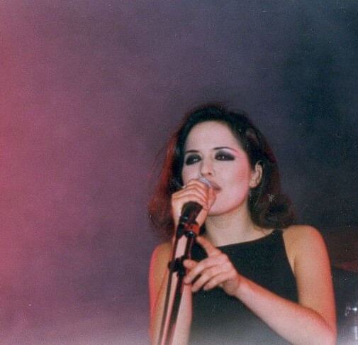 Andrea Corr from the Corrs Live in Paris, circa 1997